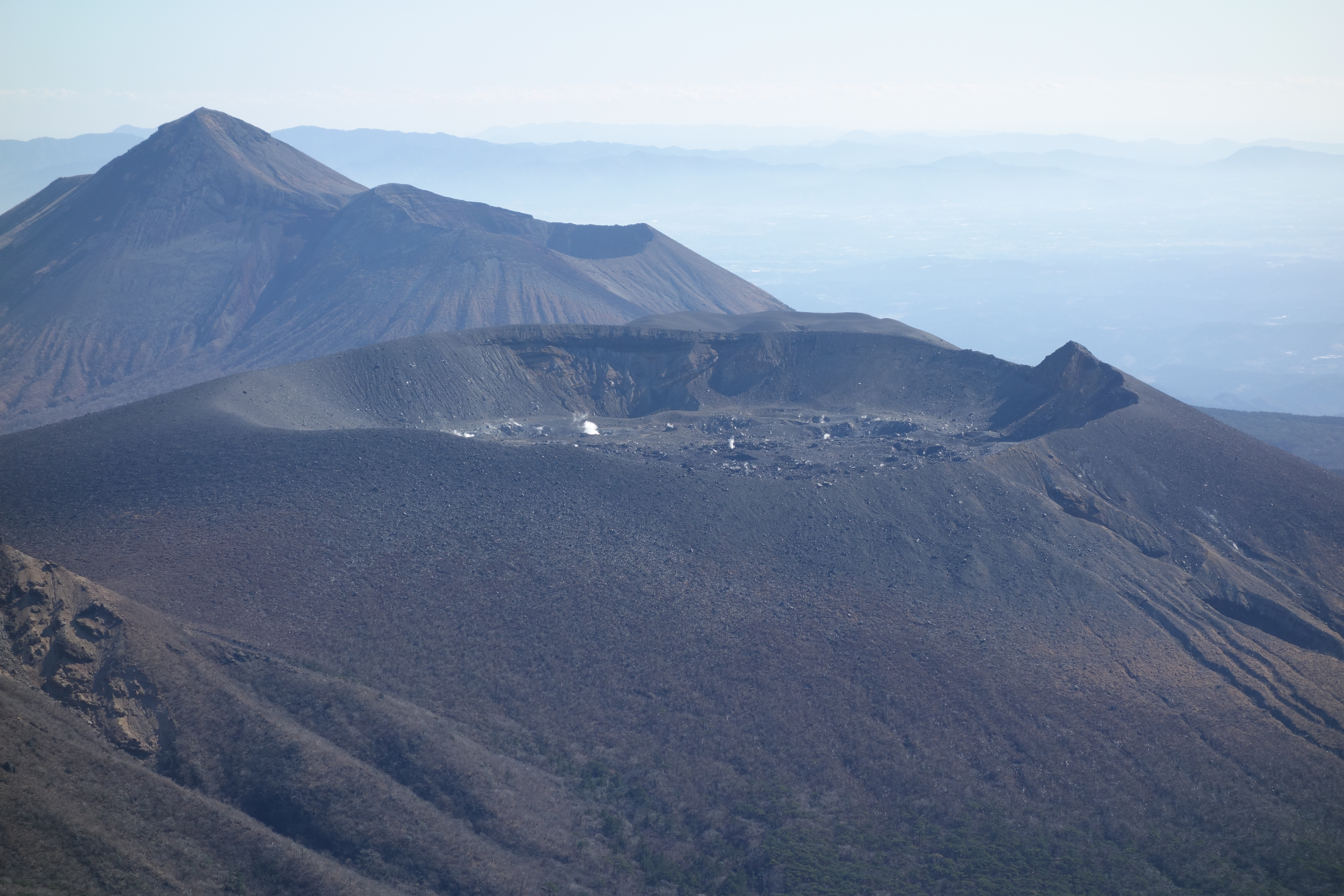 Mount Shinmoe (canter) and Mount Takachihonomine (back left).